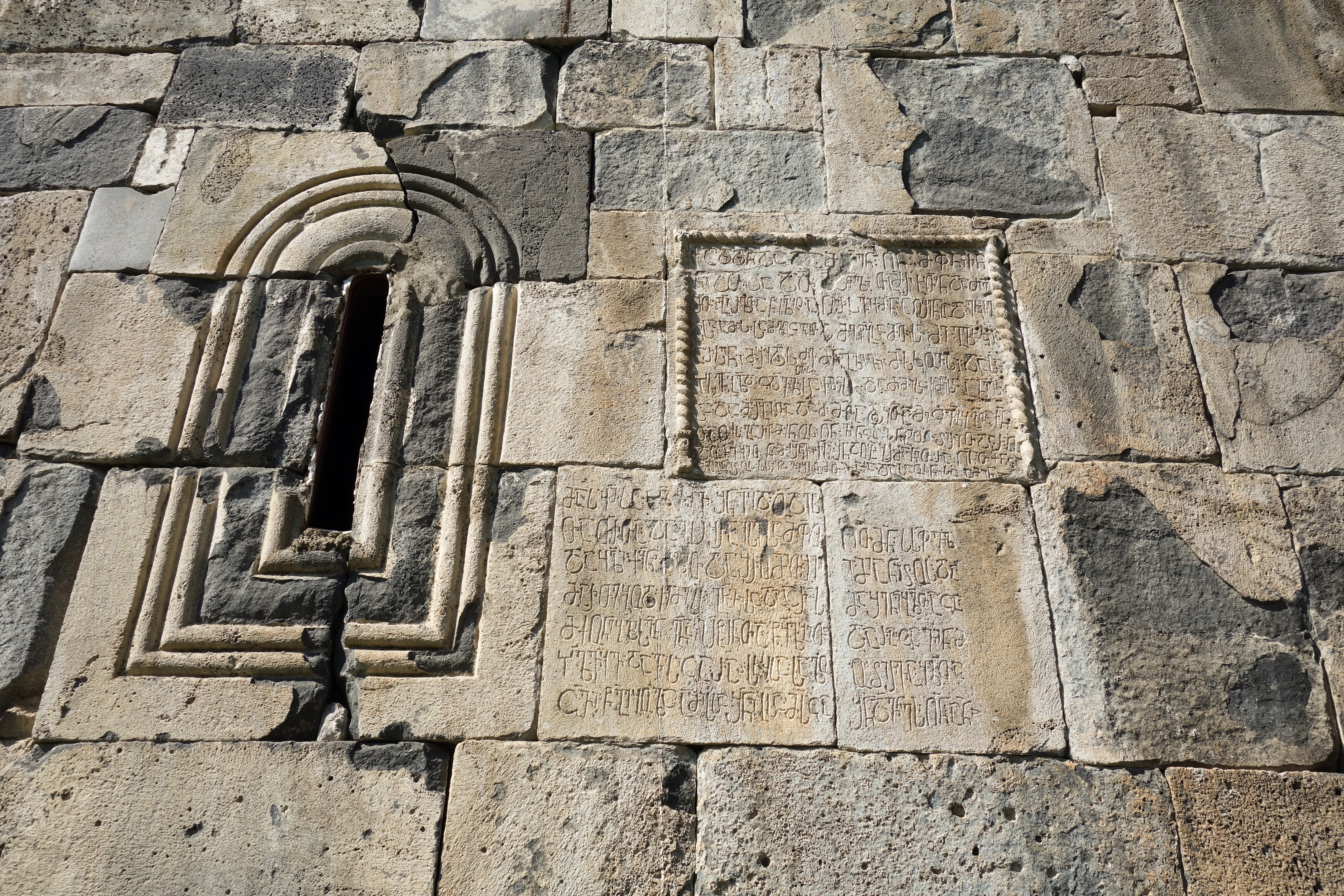 Asomtavruli inscriptions of Abelia Church (XIII c.), Abeliani, Kvemo Kartli, Georgia